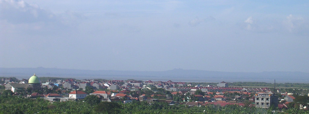 Eastern sub-urban of Surabaya, overlooking Strait of Madura. In the horizon is the Madura Island.